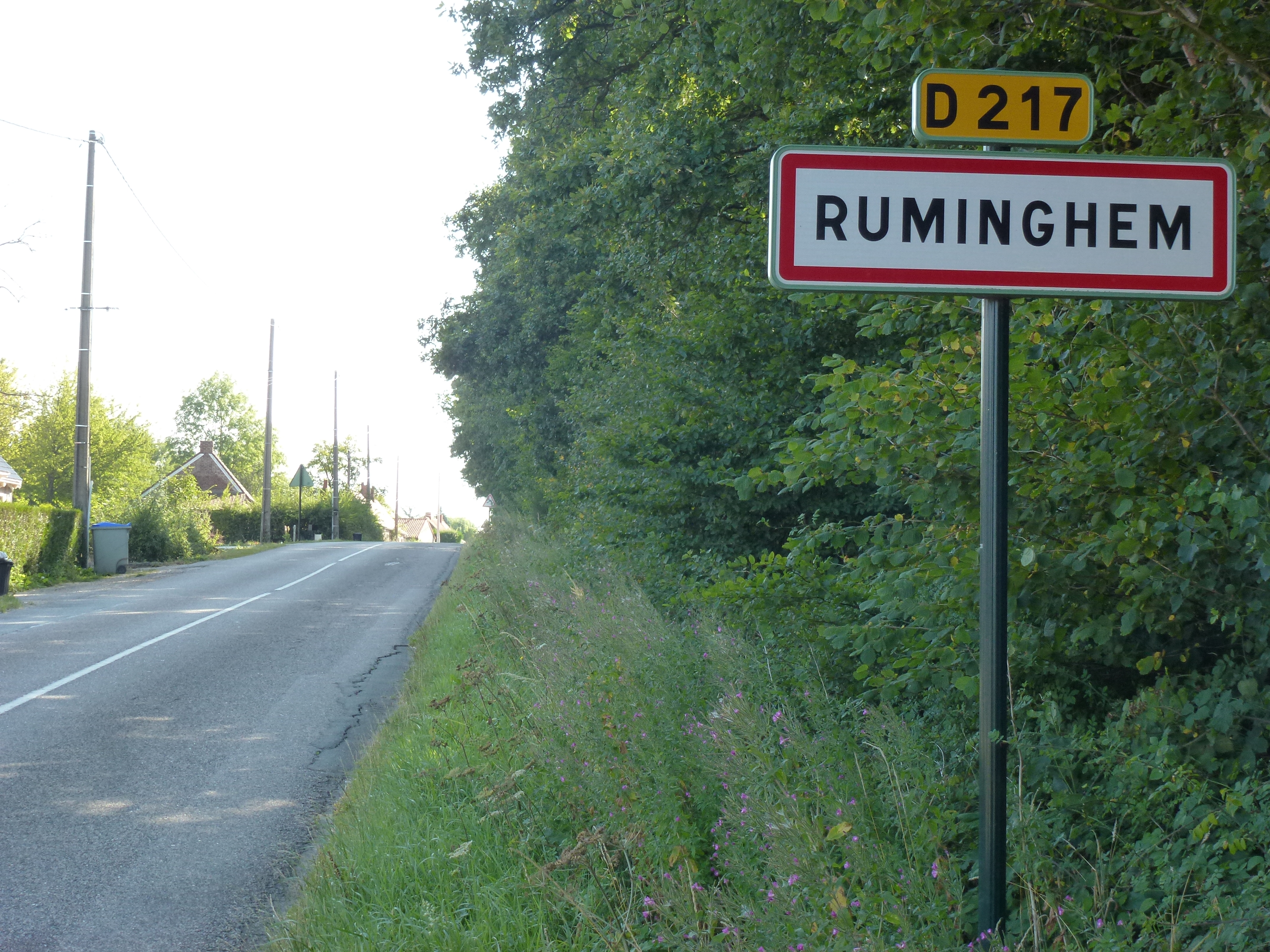 Ruminghem (Pas-de-Calais) city limit sign